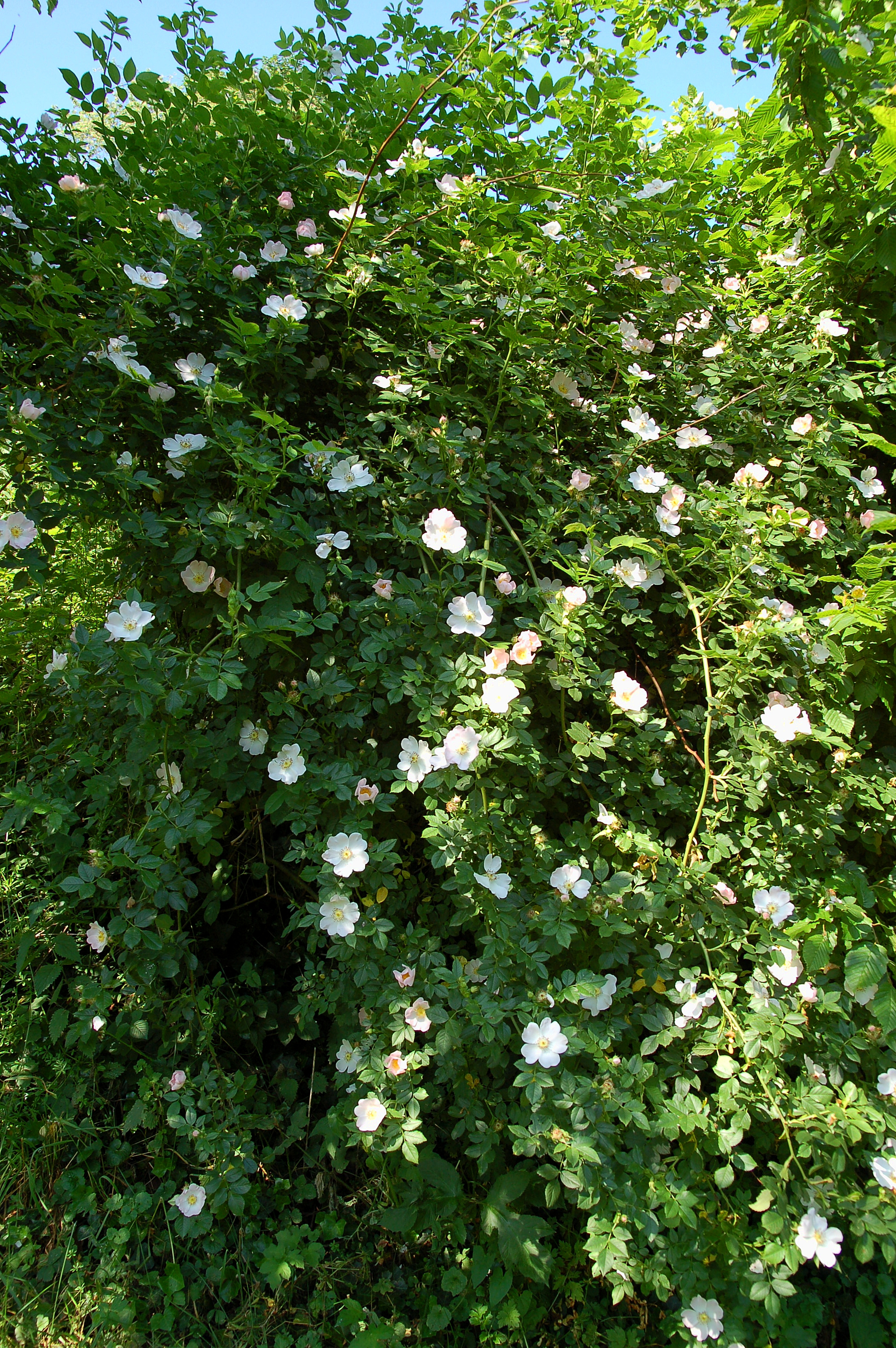 Rosa canina plant in Belgium (Hamois).